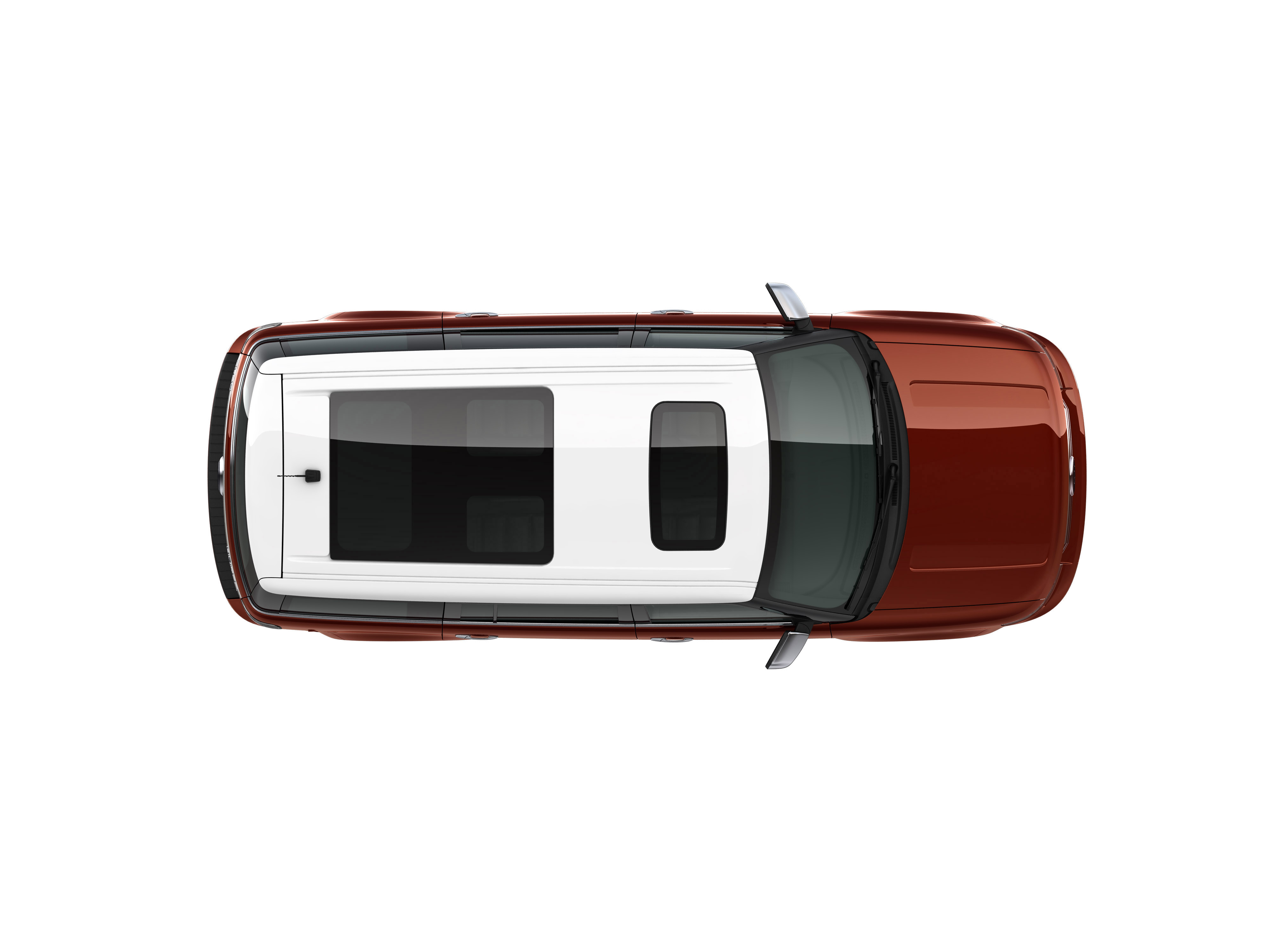 Publicity shot of the 2009 Ford Flex, kindly released under an acceptable licence by the Ford Motor Company.